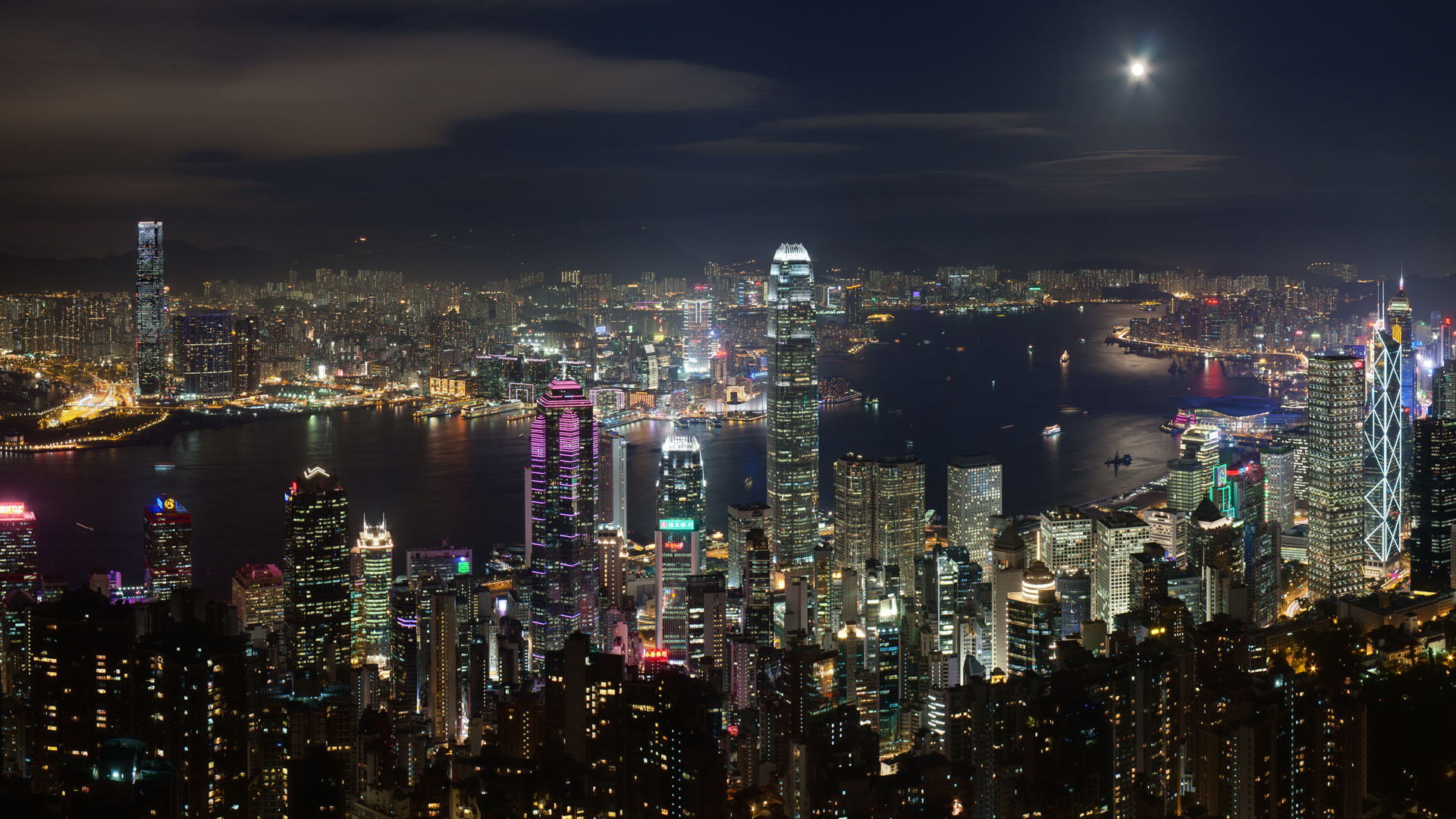 Hong Kong Night view